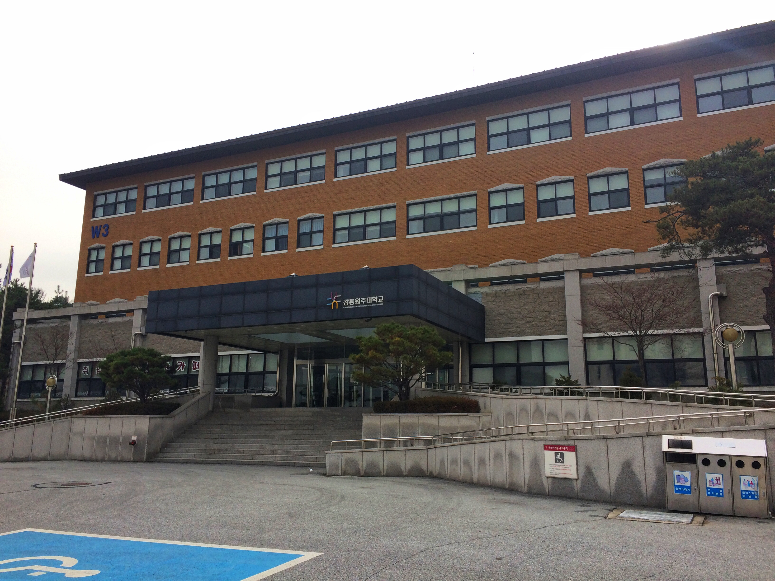 Campus main building at Gangneung-Wonju National University at Wonju Campus.